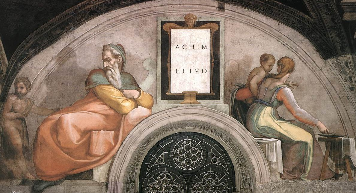 Sistine Chapel, fresco Michelangelo, one of Ancestors of Christ series